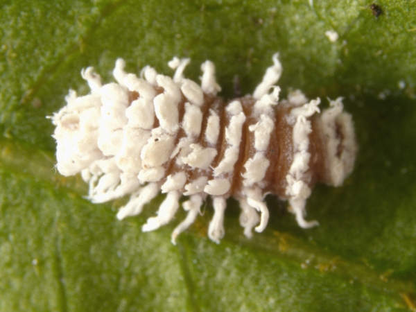 mealybug destroyer This image, or it's original, was copied from to be used in Wikimedia projects. For a complete description of the image (possibly updated!), the page at InsectImages should be considered to be the primary source, as the image database with meta data is maintained there! So, for more image-info visit the image page at InsectImages!